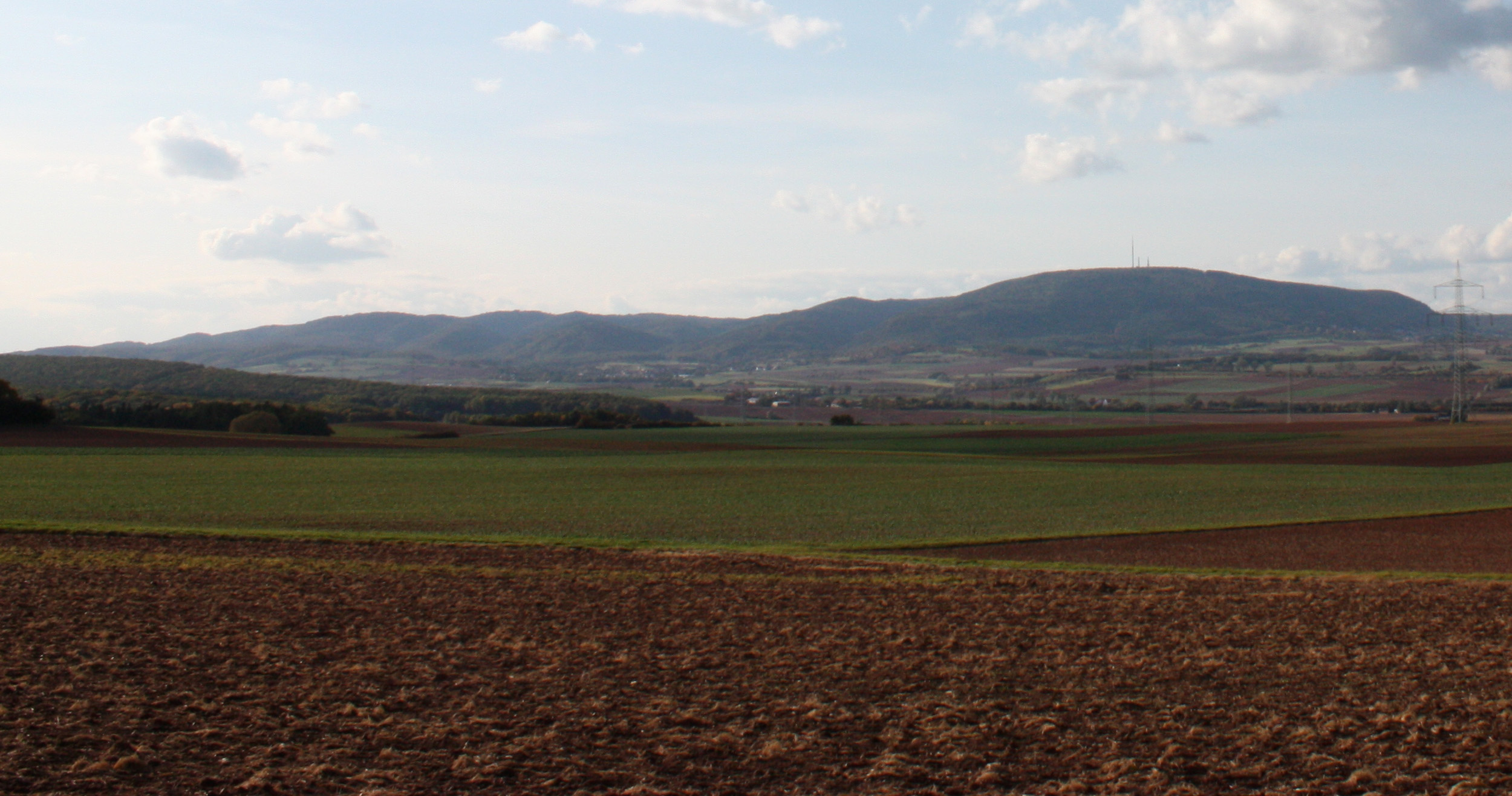 Donnersberg, crop by QL1968 of a photo taken in Göllheim, October 2008, by Felix.matheis